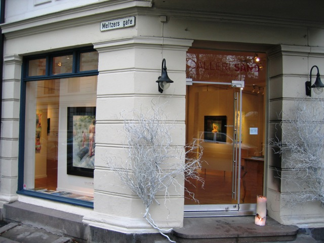 Gallery Sand, Oslo, Norway.